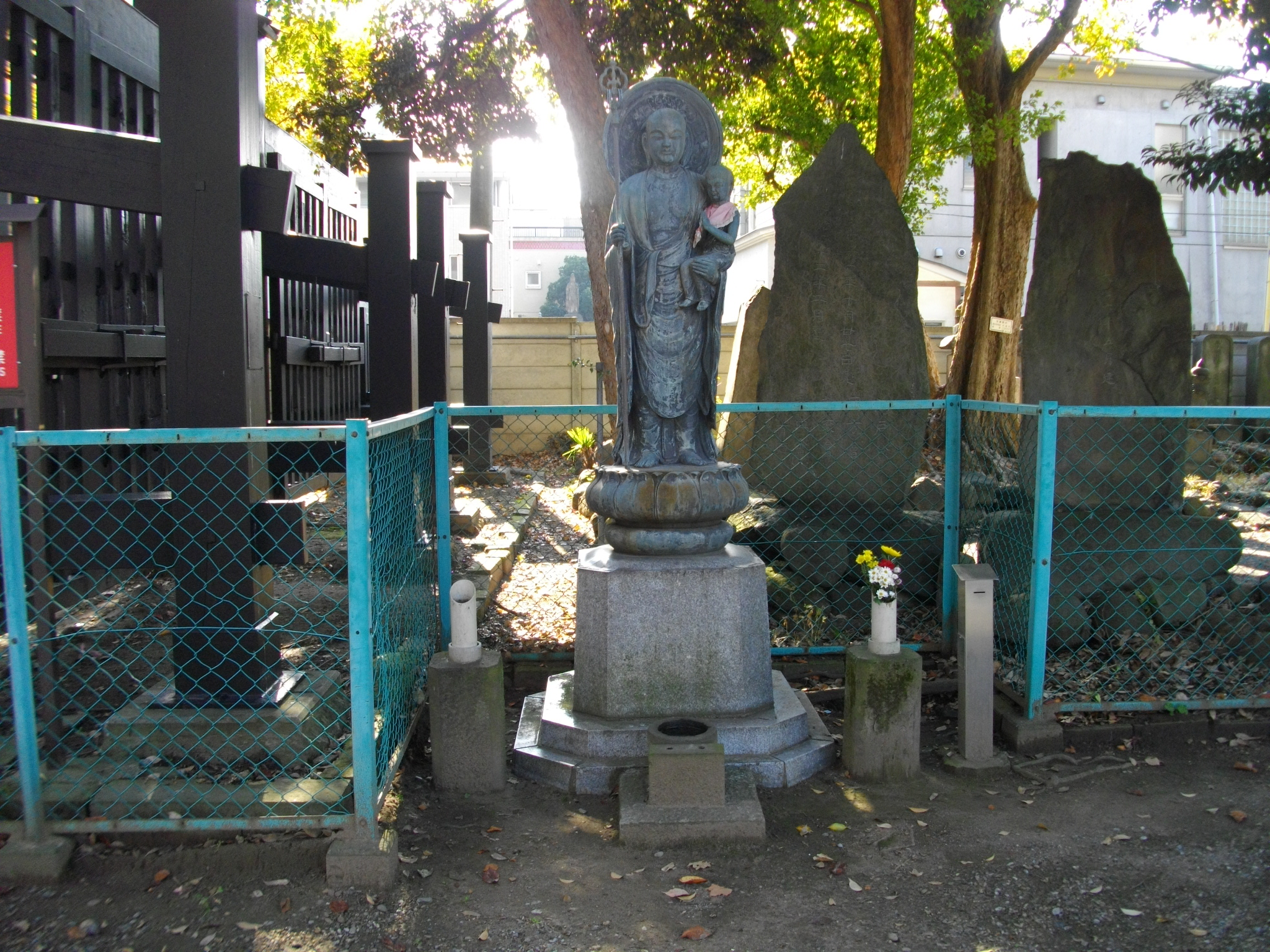 Yoshinobu Jizo